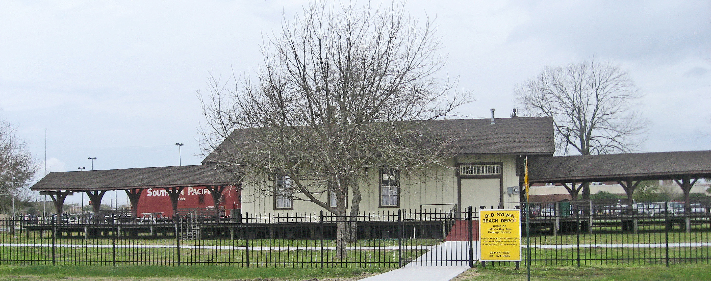 In 1895 the La Porte/Sylvan Beach Depot was constructed in downtown La Porte on East Main Street near from Five Points. In 1899 the Depot became part of the Southern Pacific System and was known as the Galveston, Houston and San Antonio Line. In 1915 Southern Pacific moved the Depot building to Sylvan Beach to better serve the passengers after the Park had become popular. The Depot was now called the Sylvan Beach Depot. In 1930 the Depot was closed due to the popularity of the automobile and lack of passengers.